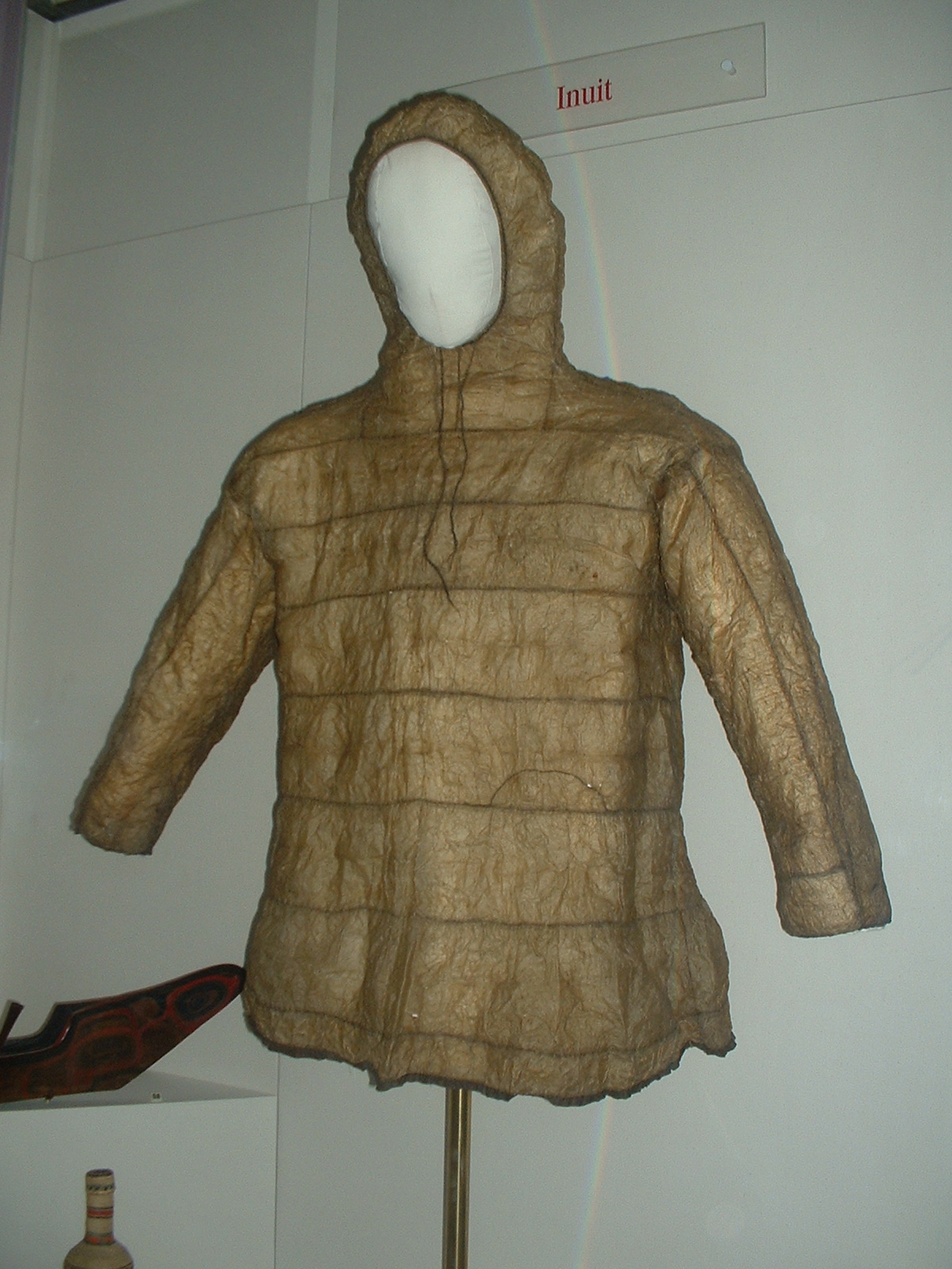 Parka (Kamleika) Inuit. Photographed at the Royal Albert Memorial Museum & Art Gallery (RAMM) on 21-Feb-06.